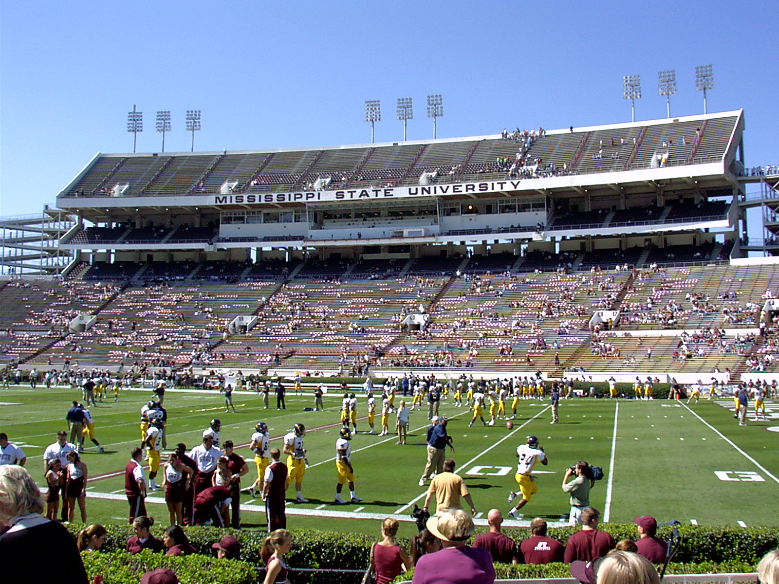 Davis Wade Stadium at Scott Field